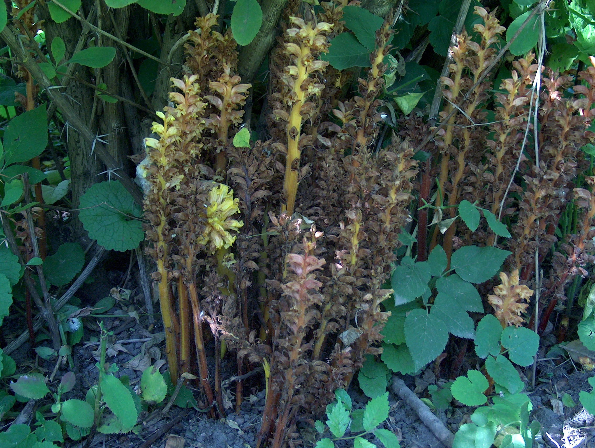 Orobanche lucorum - Fruiting - University Botanical Garden in Helsinki